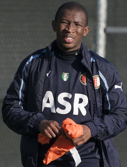 Kamohelo Mokotjo in training for Feyenoord.